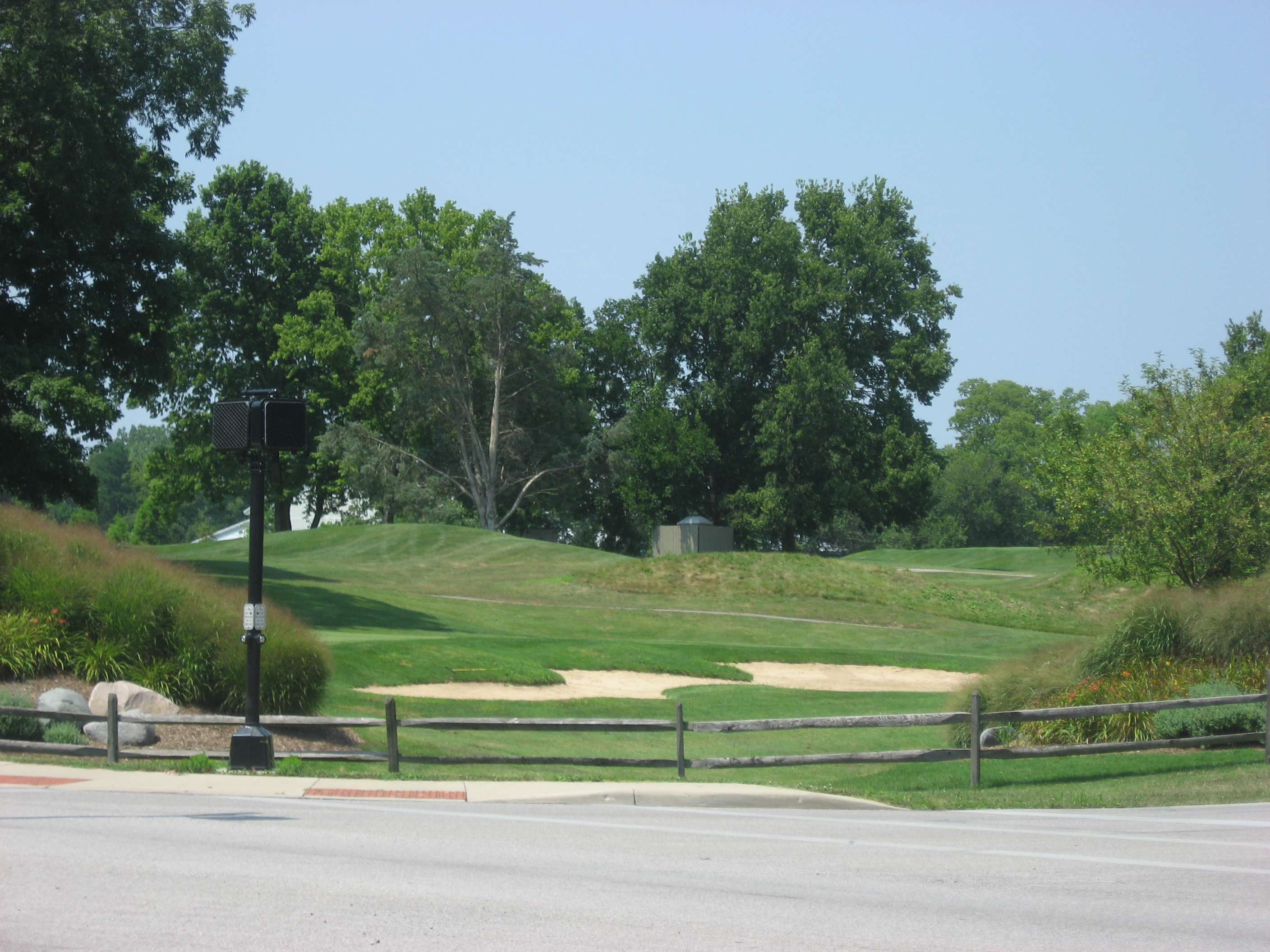 A fairway at the Little Miami Golf Center, located off Church Street in Newtown, Ohio, United States. The golf course — part of the Hamilton County Park District — occupies the Perin Village Site, where a Hopewellian village once lay; as an archaeological site, it is listed on the National Register of Historic Places.